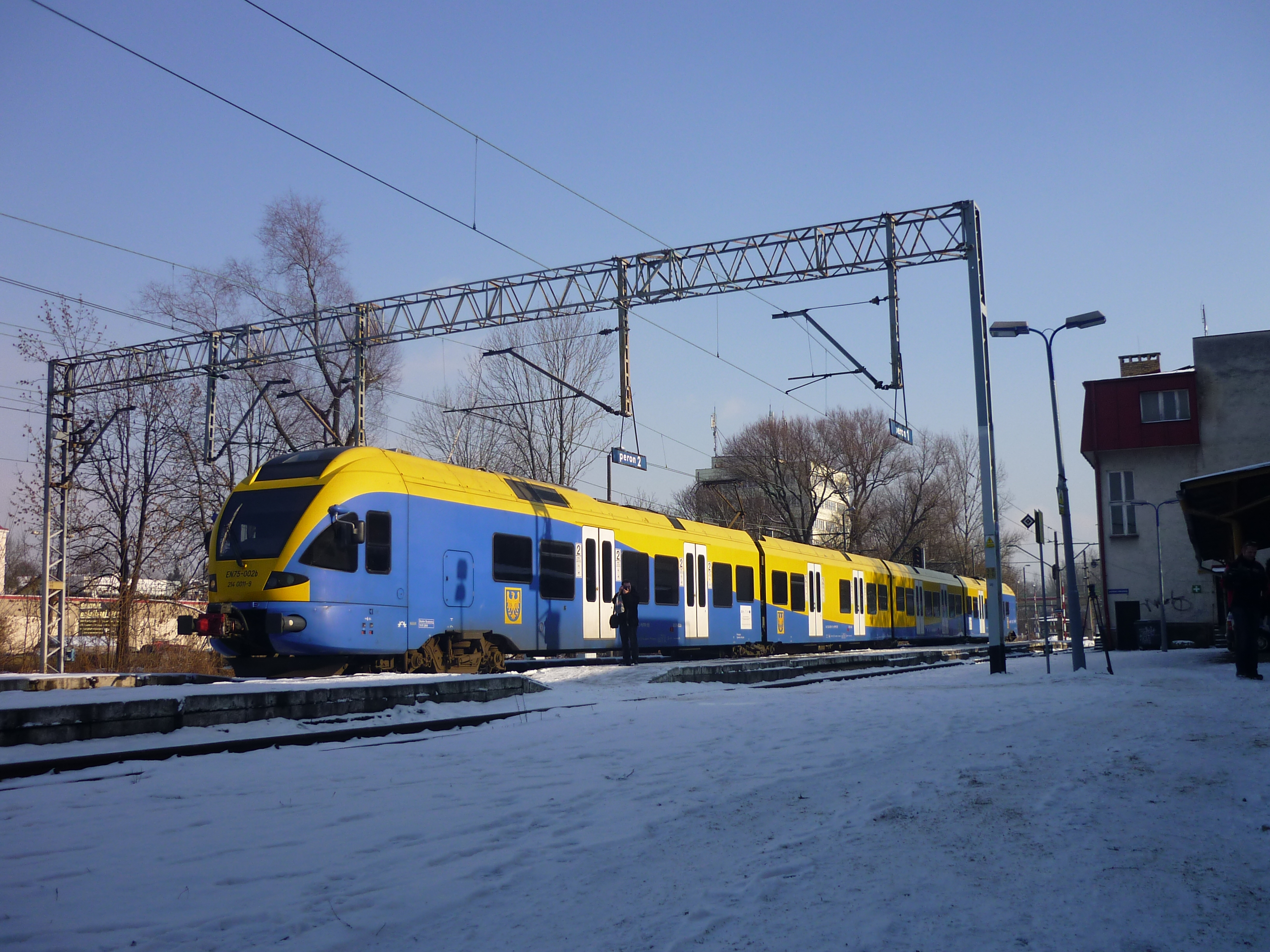 Train unit EN75-002a in Cieszyn